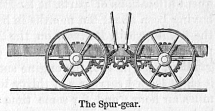 The gear transmission of the first locomotive designed by George Stephenson - the Blücher. It was adapted from the principle used by Blenkinsop using cogged rails.